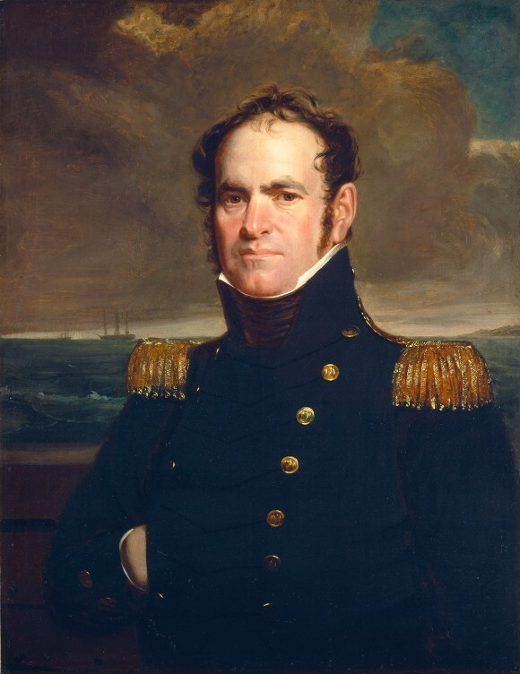 Commodore John Rodgers, USN.